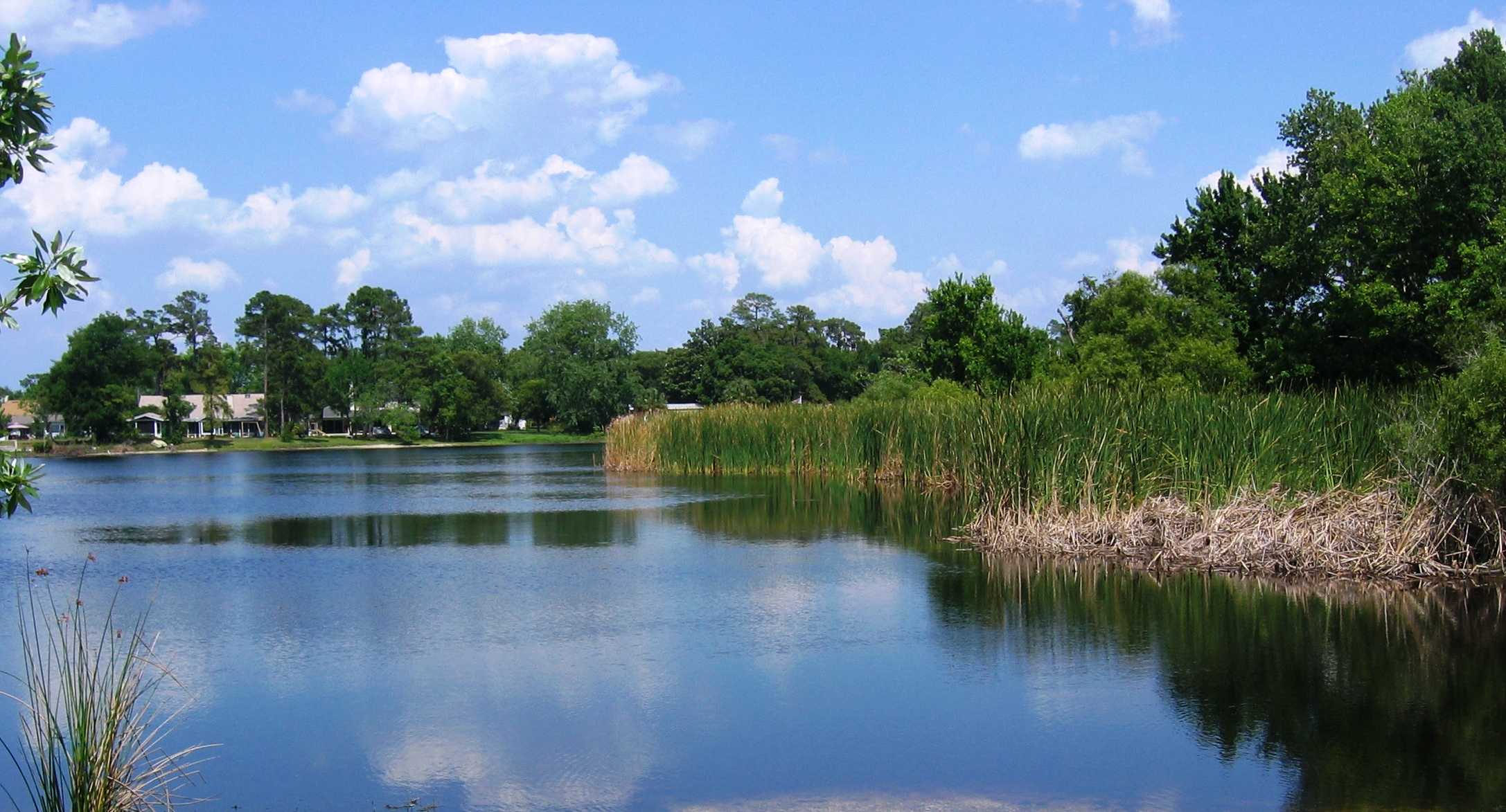 A view of North Triplet Lake looking east from Secret Lake Park.